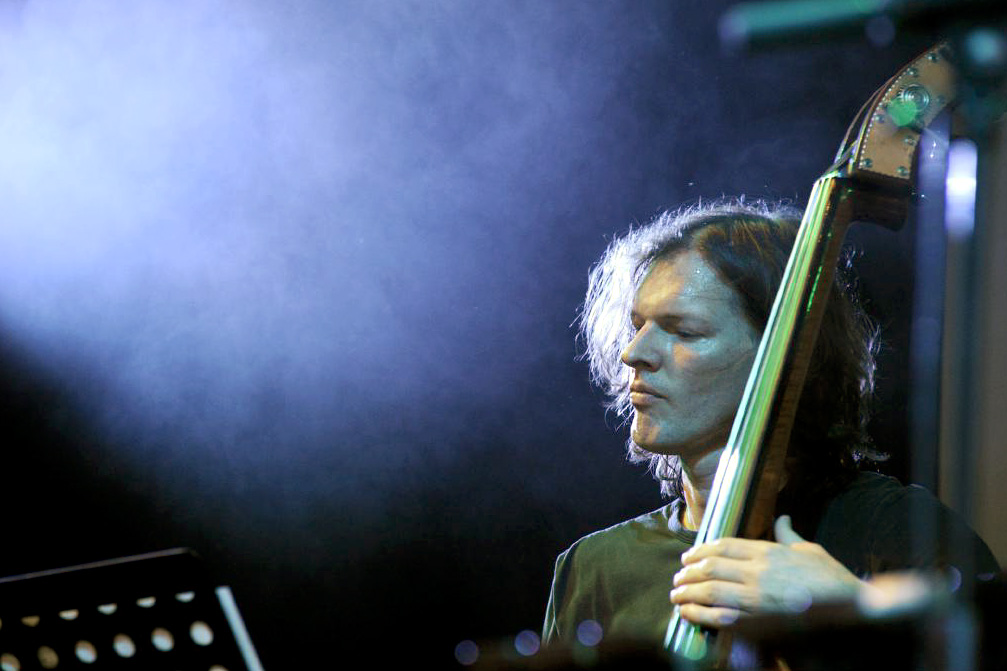 Tim Isfort, moers festival 2009